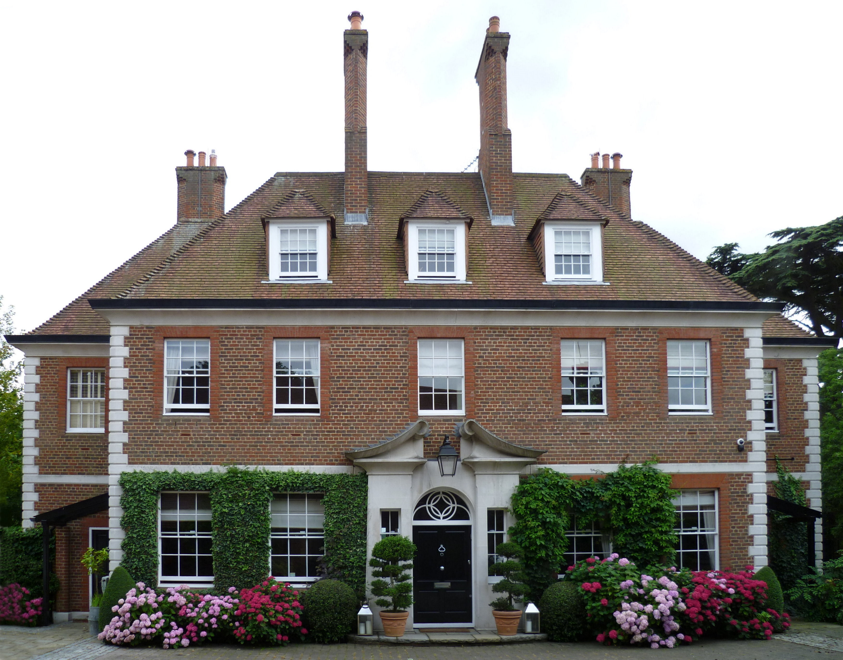 Hadley Lodge 03.08.15